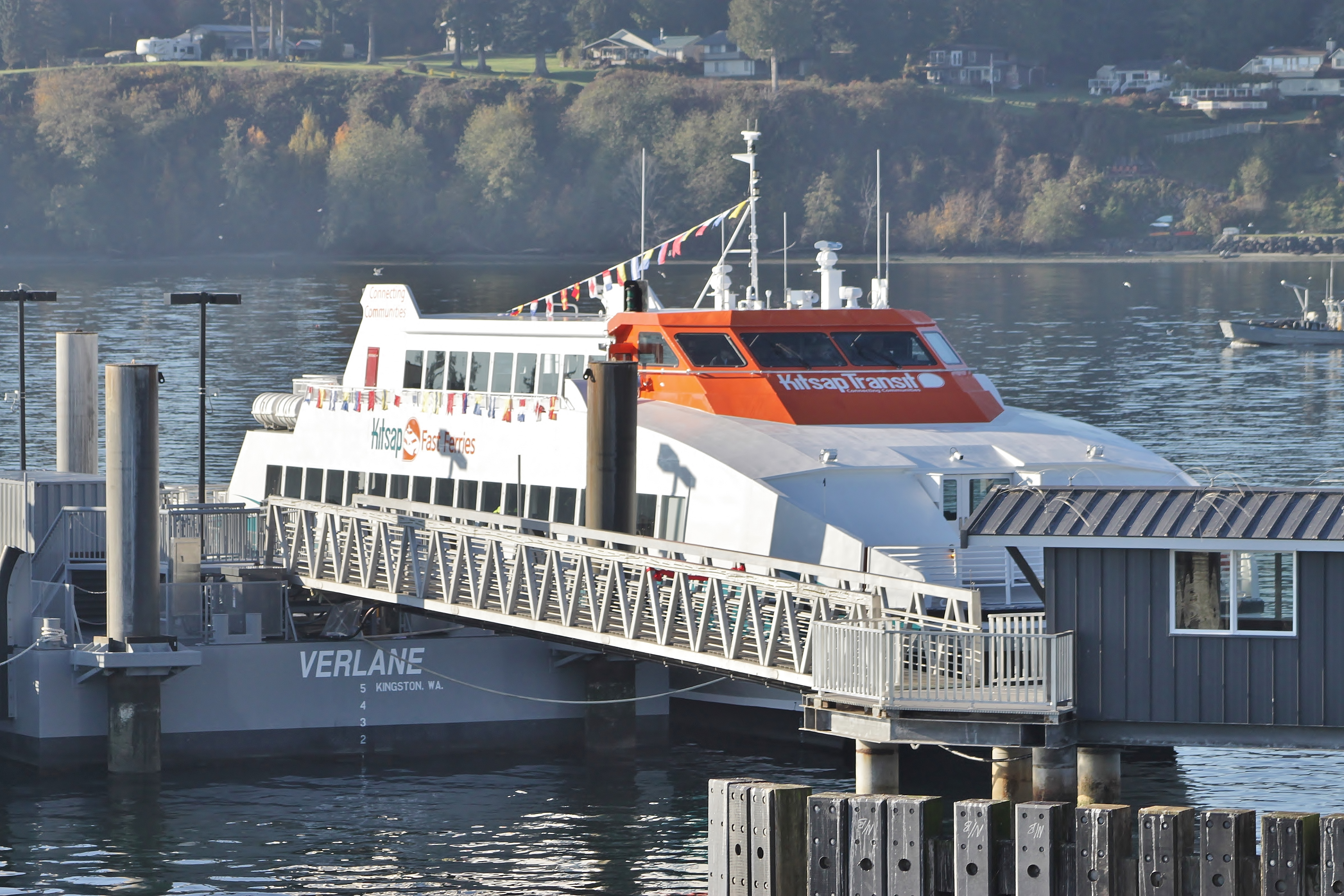 M/V Finest, a passenger catamaran in the Kitsap Fast Ferries fleet, seen at the Kingston terminal on the day of its inauguration.